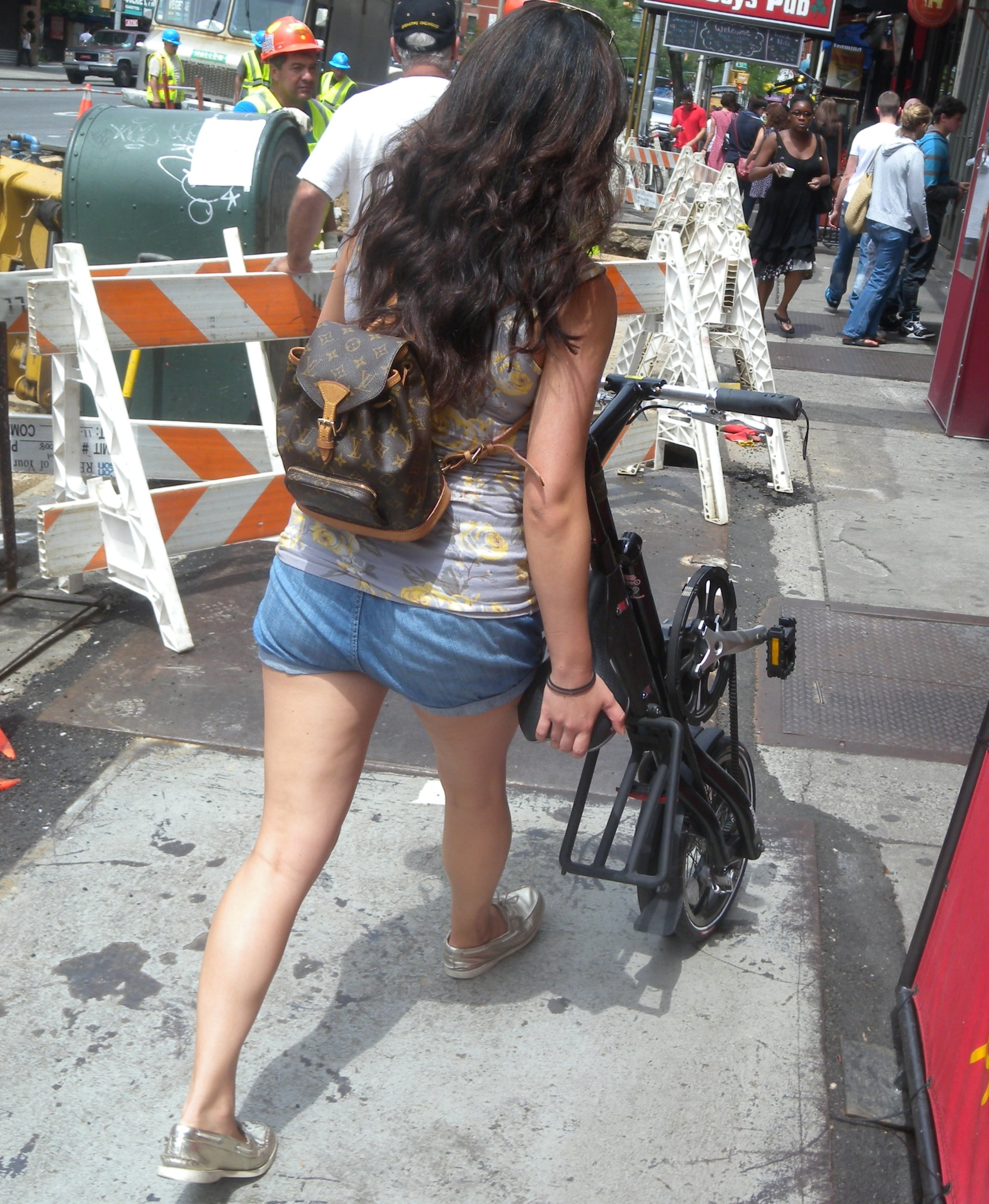 Looking north along 9th Avenue as she pushes her folded Strida towards 52nd Street on a sunny midday.